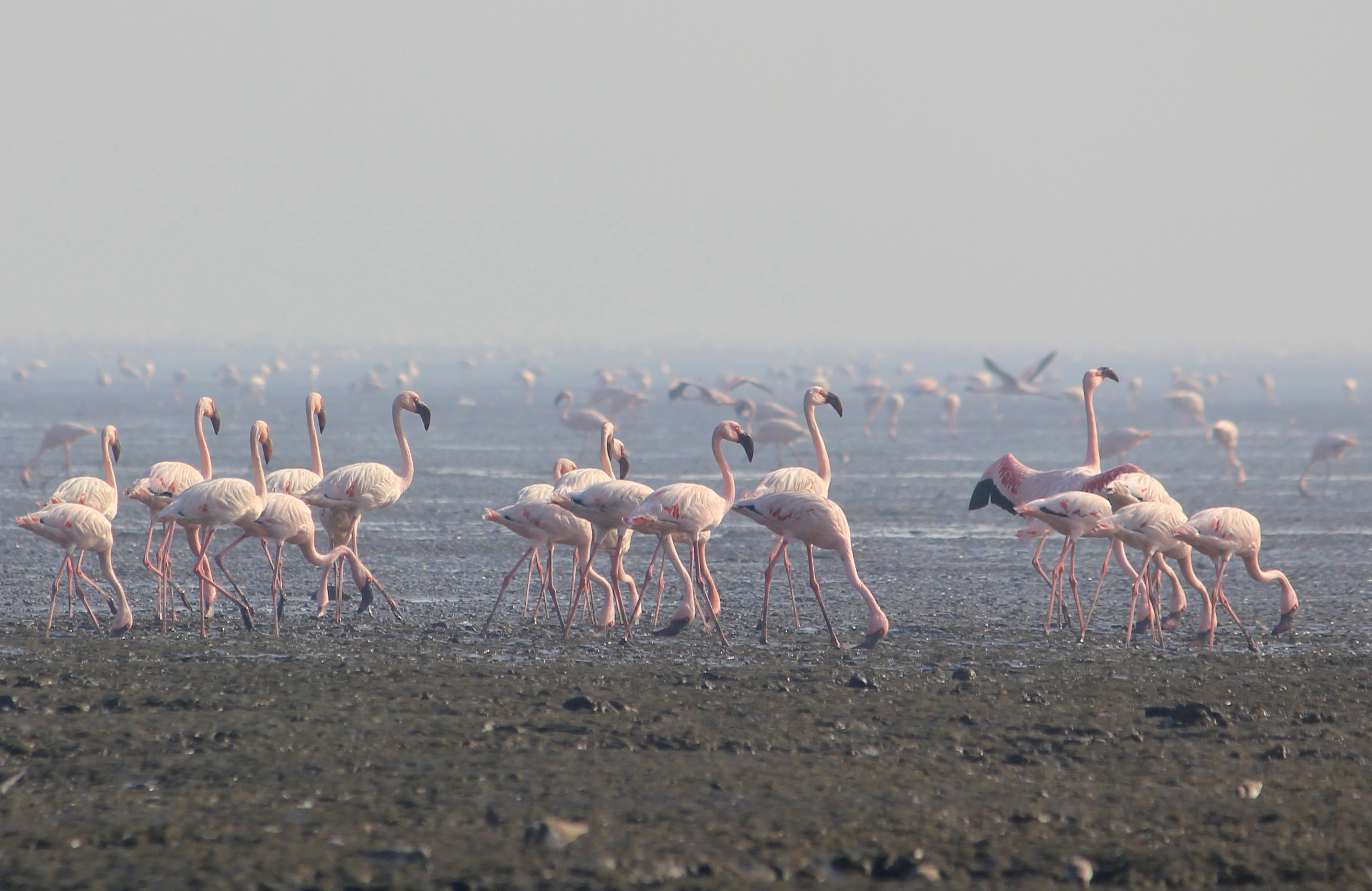 Lesser Flamingos at Sewri harbour in early morning. They come near as the high tide occurs.